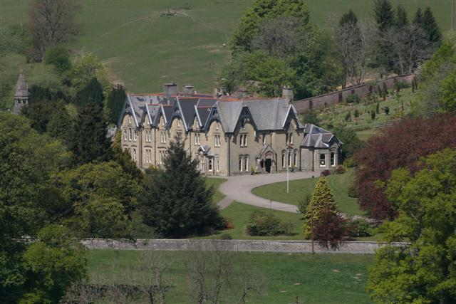 Abbey Cwmhir Hall seen from the south.